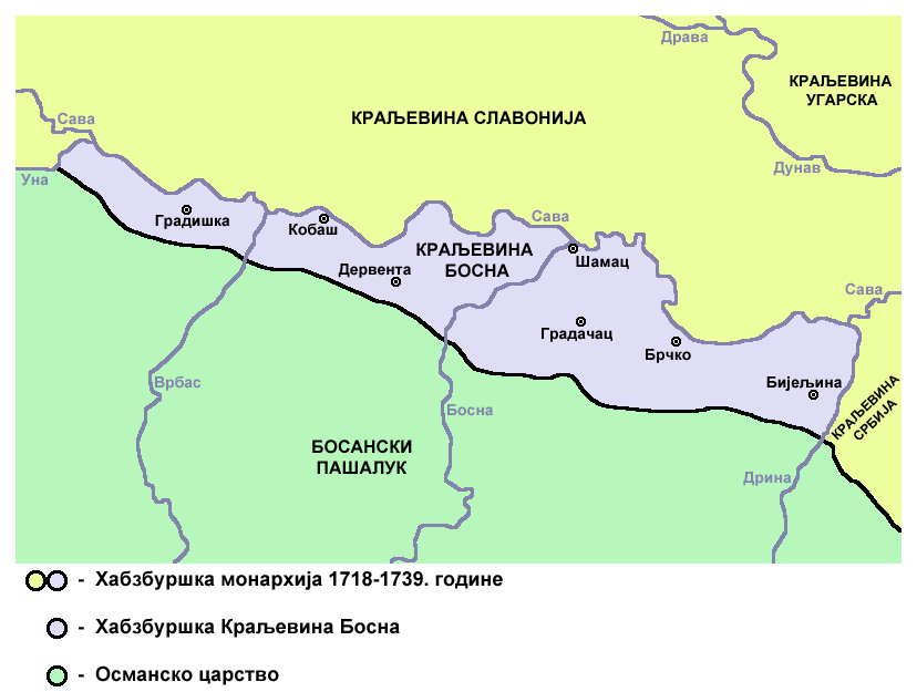 Habsburg Kingdom of Bosnia (1718-1739).